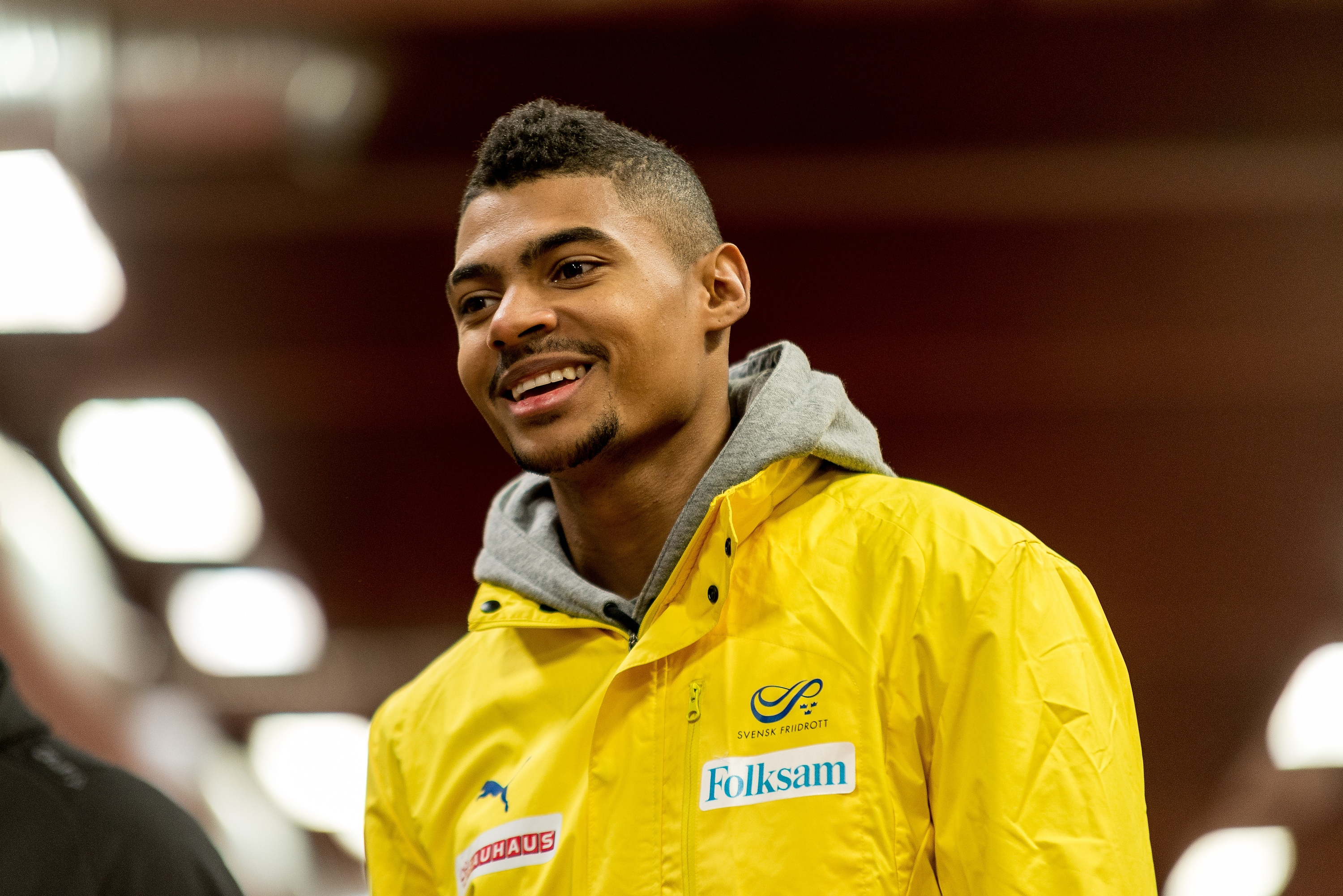 Swedish long jumper Michel Tornéus at Växjö Tipshall for Nordenkampen 2013.